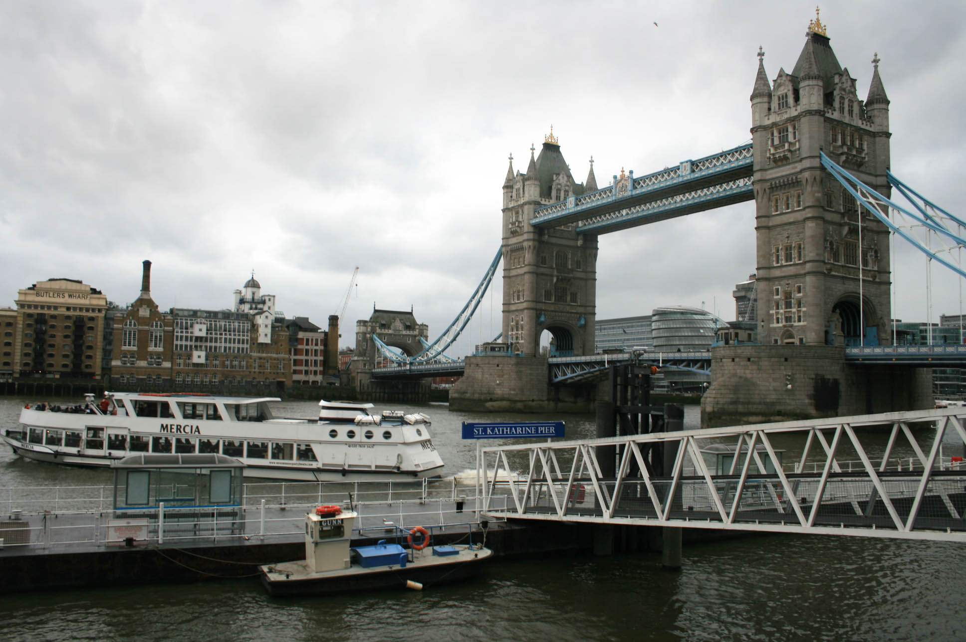 The MV "Mercia" departs from St Katharine pier on the River Thames, London, UK, with Tower Bridge in the background.